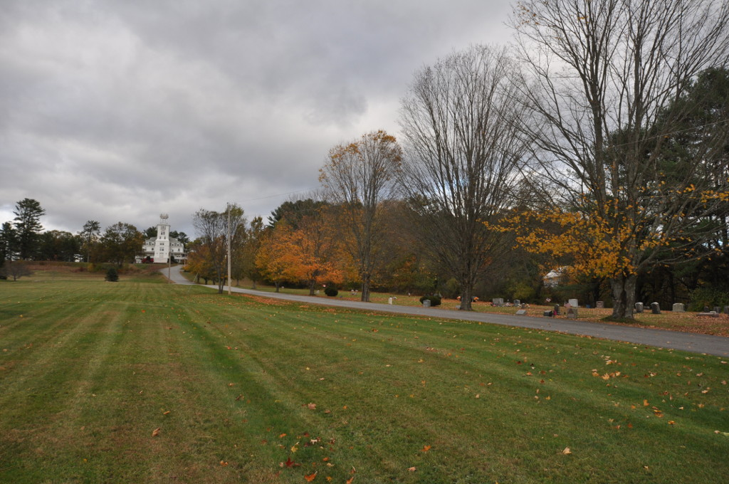 Shiloh Temple, Durham, Maine